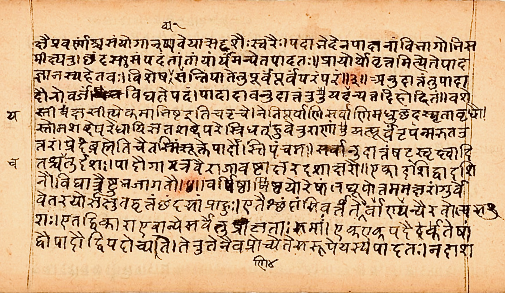 The Rigveda-Samhita is the only surviving recension of the oldest ritual hymns of India. It consists of 10 mandalas, composed between 1500–1200 BCE. It is in the archaic Sanskrit language. Pratishakhya (Sanskrit: प्रातिशाख्य prātiśākhya), also known as Parsada (pārṣada), are Vedic age manuals devoted to the precise and consistent pronunciation of words. They are a part of the Shiksha Vedanga: works dealing with the phonetic aspects of the Sanskrit language used in Vedas. Each Veda has a pratishakhya per school. Many pratishakhyas have survived into the modern age. The few manuscripts of the pratisakhyas that have survived into the modern era are likely from the 500 to 150 BCE period. The above photo is of a manuscript copied on paper in the 19th century, and is now MS 2162 of the Schoyen Collection, near Oslo, Norway. It is in Sanskrit, on paper, Devanagari script. This is a photograph of a two-dimensional manuscript copied in the 19th-century from a much older text. Therefore and PD-Art and PD-US-expired guidelines of wikimedia commons apply. Any rights I have as a photographer, I herewith donate to wikimedia commons under CC 4.0.